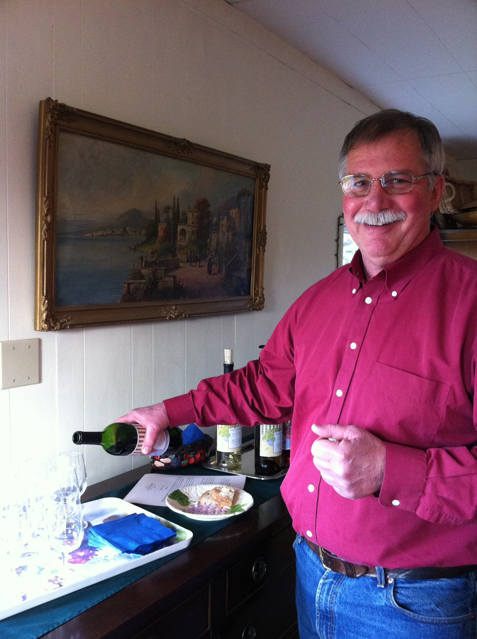 Washington Winemaker Clay Mackey of Chinook Wines